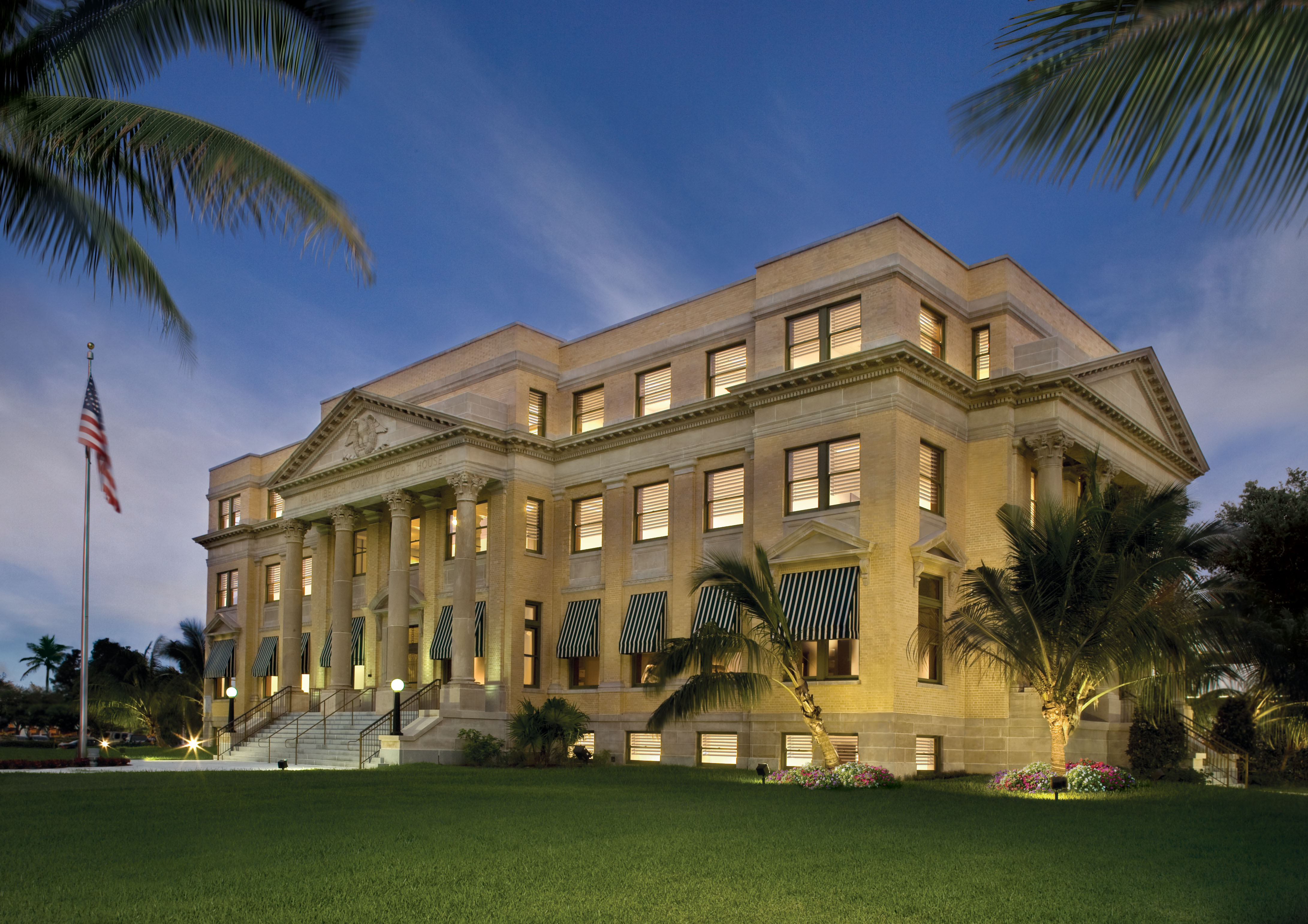 Photograph of the 1916 Court House in downtown West Palm Beach. Home to the Richard and Pat Johnson Palm Beach County History Museum